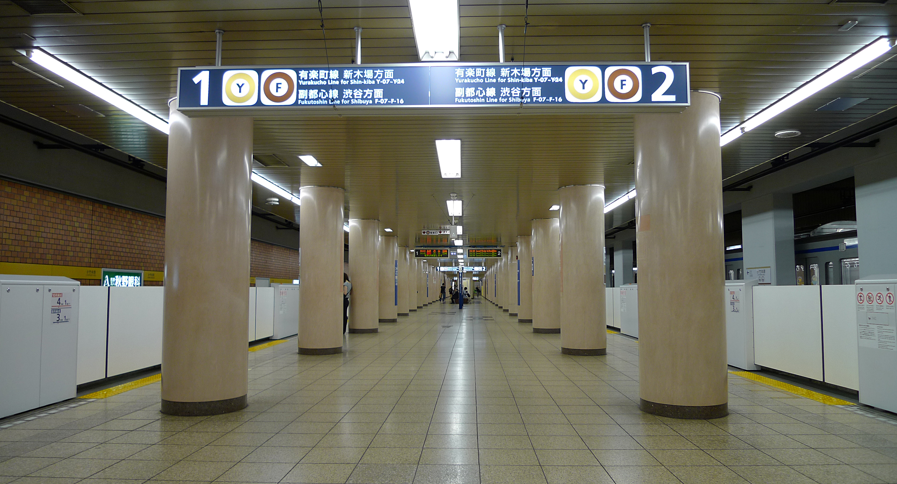 Kotake-Mukaihara station No.1 and 2 platforms,Tokyo Metro Yurakucho and Fukutoshin Line.